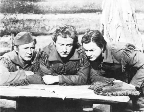 Spencer Tracy & Robert Young taken for film Northwest Passage (1940). See also film still. No copyright notice.